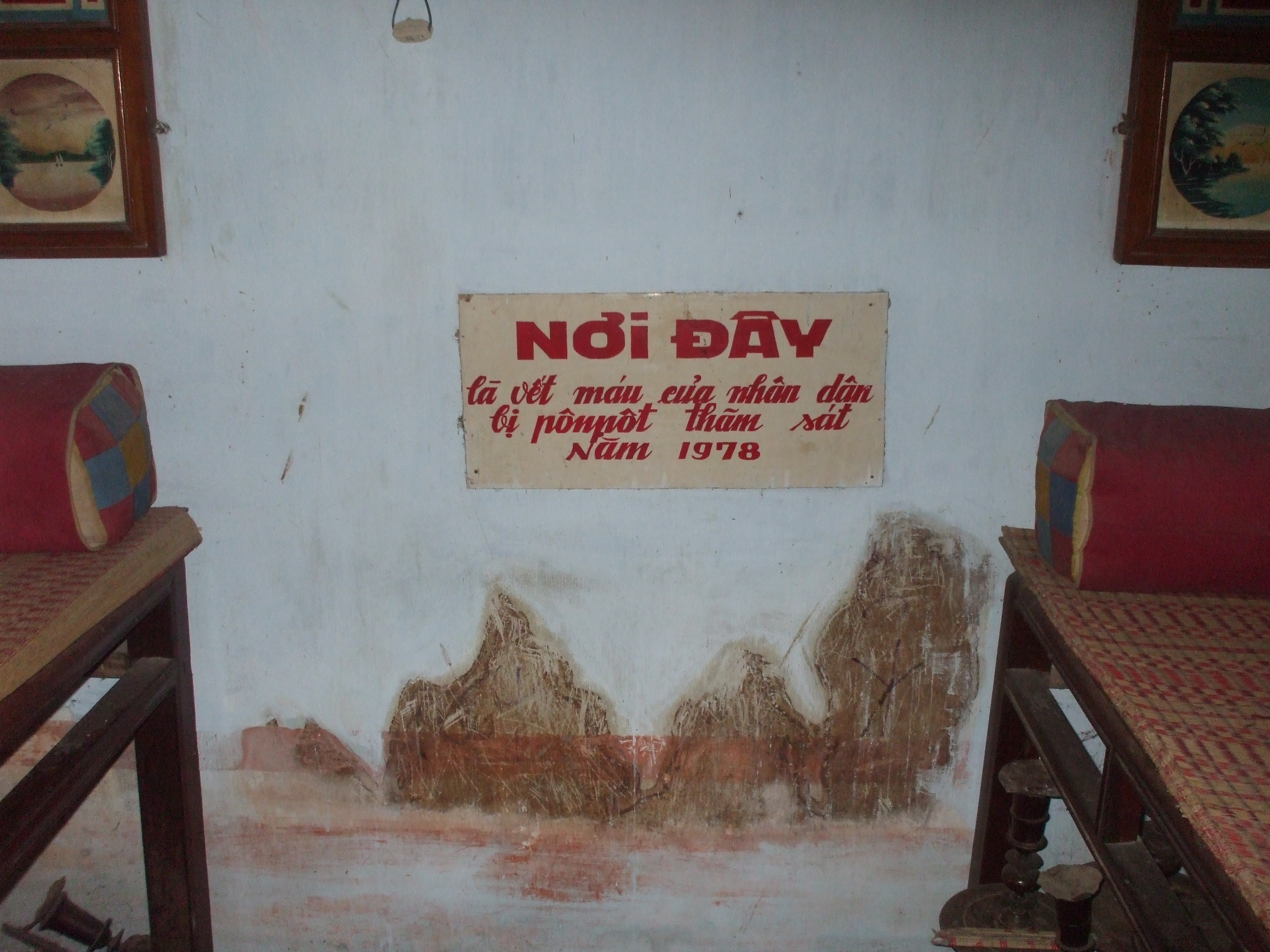 The wall of Phi Lai pagoda was stained with blood of people who were believed to have been massacred by the Khmer Rouge. Ba Chúc, Tri Tôn county, An Giang province, Việt Nam.